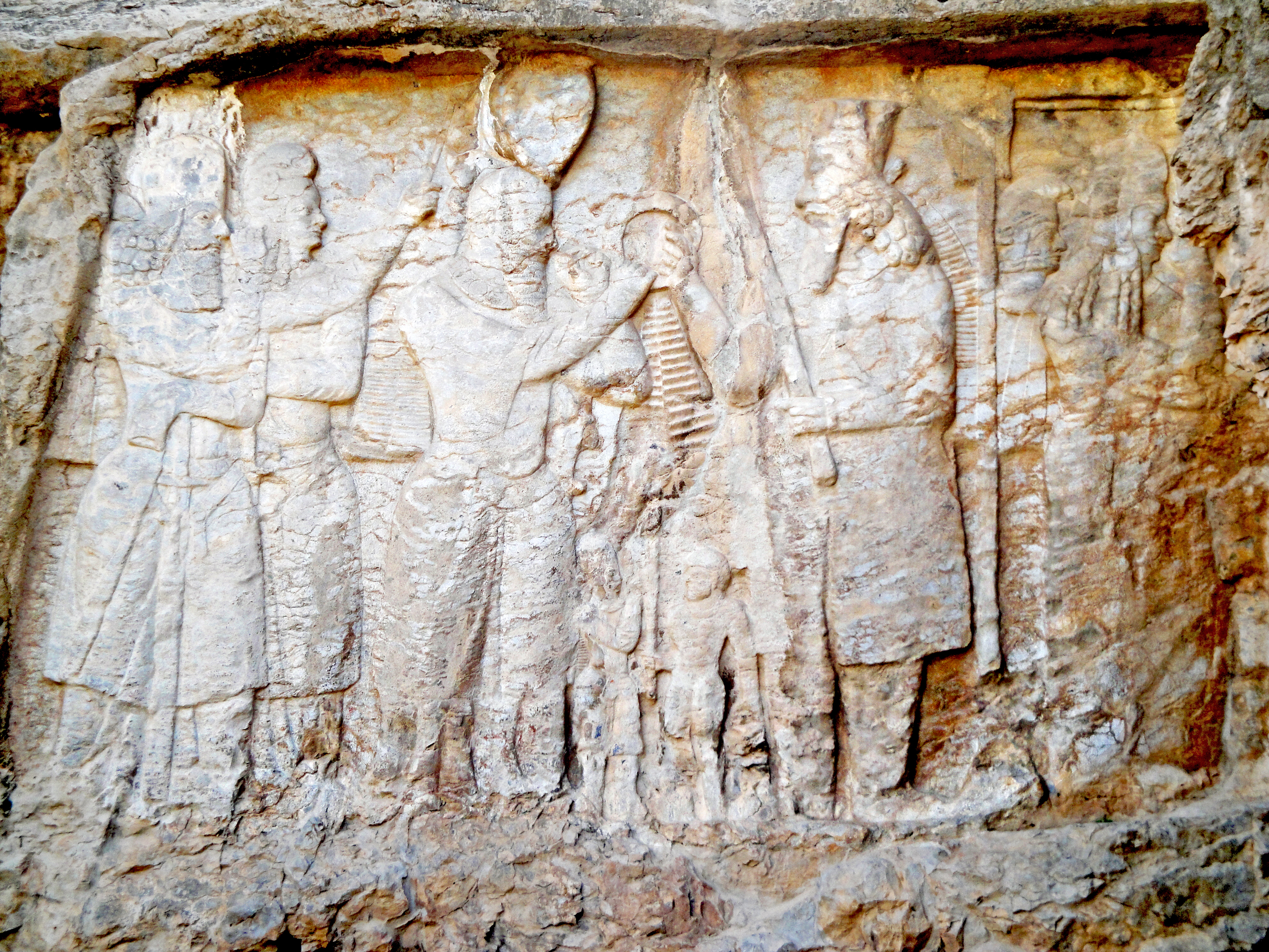 Ardeshir Babakan and Ahuramazda at Naqsh Rajab